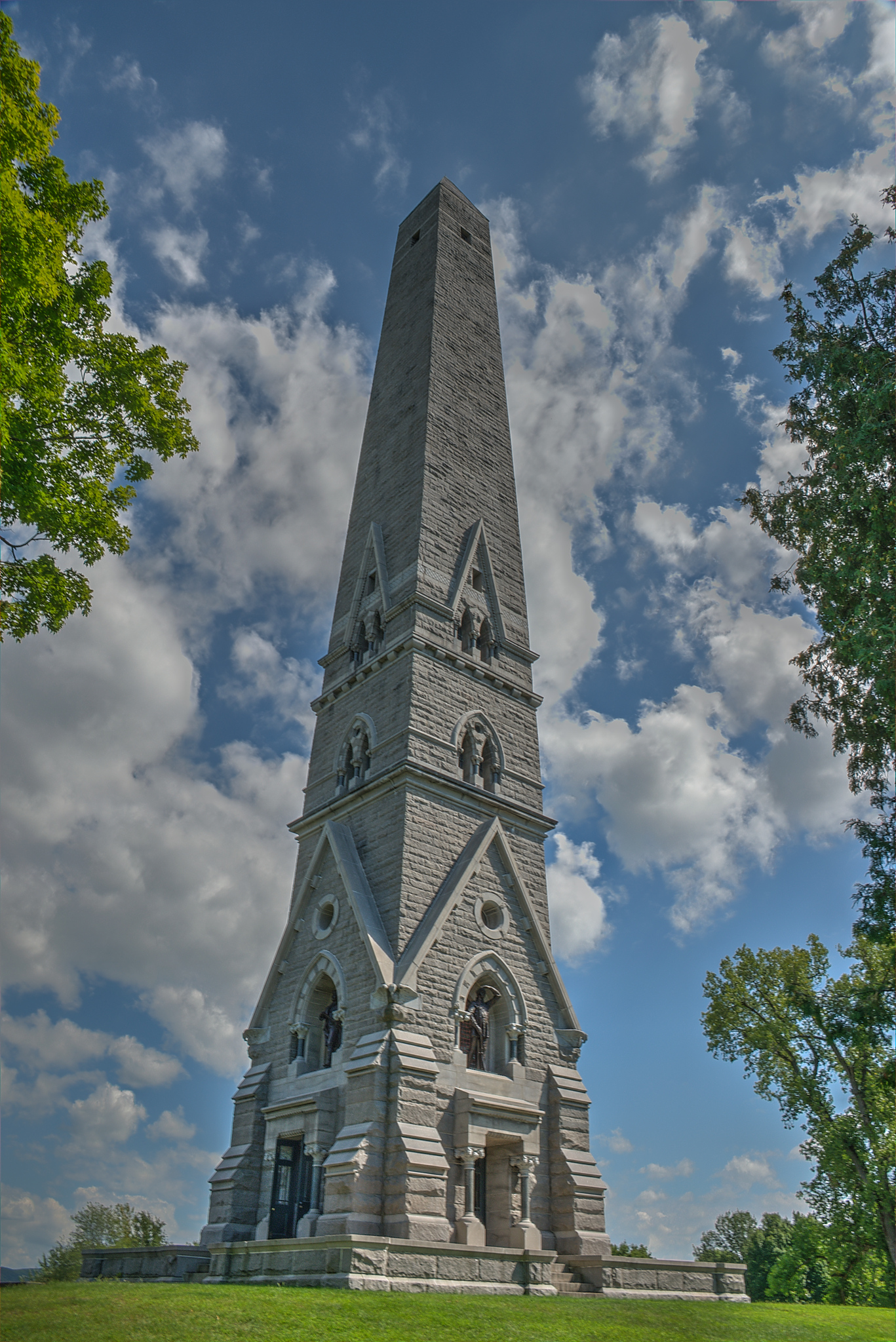 Saratoga Monument